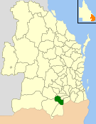 Location of the former Local Government Area in Queensland